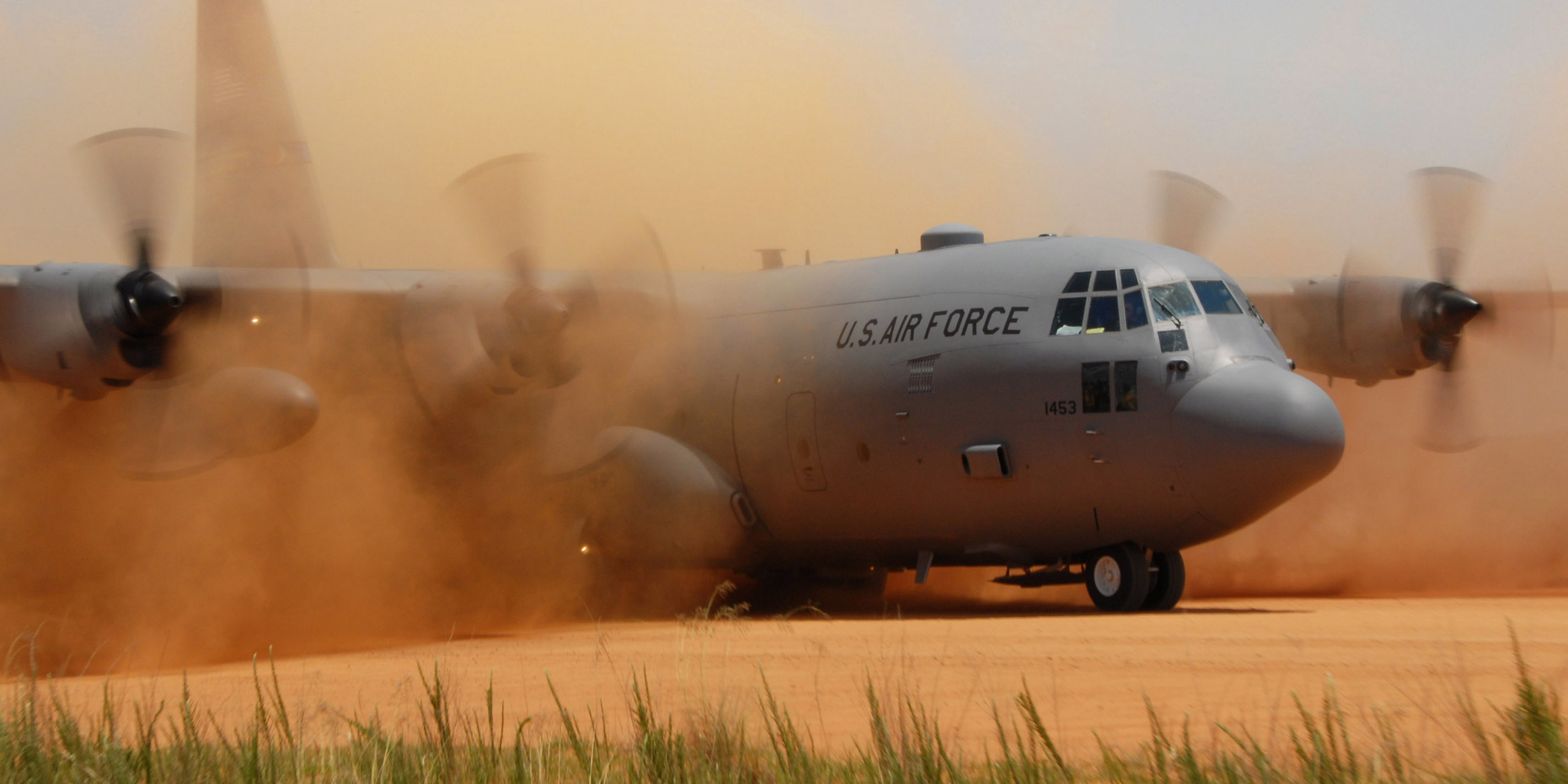 A C-130 Hercules cargo plane performs a tactical landing on a dirt strip at the Sicily Landing Zone on Fort Bragg, N.C. Paratroopers re-enacted a D-Day jump to the zone. The C-130 is assigned to the North Carolina Air National Guard's 145th Wing.